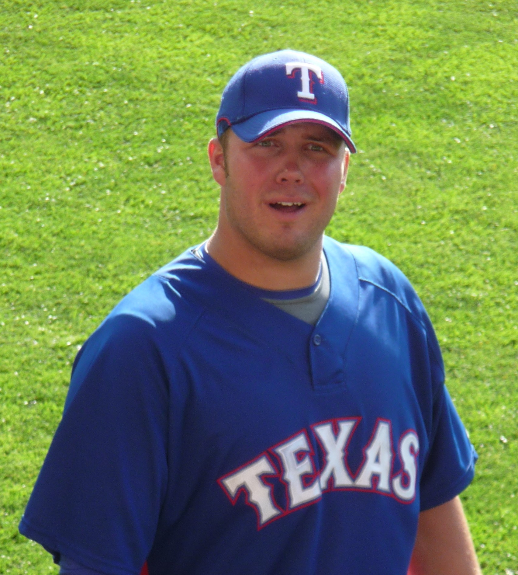 Tommy Hunter of the Texas Rangers, chatting with a fan before the game